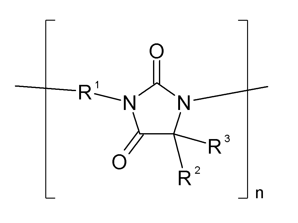 General structure of a polyhydantoin